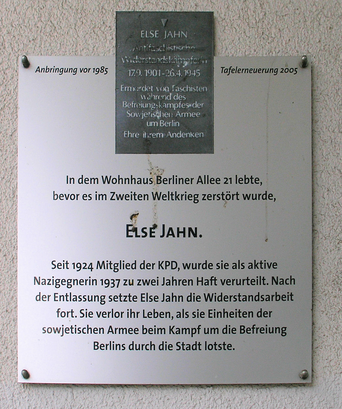 Memorial plaque, Else Jahn, Berliner Allee 23, Berlin-Weißensee, Germany